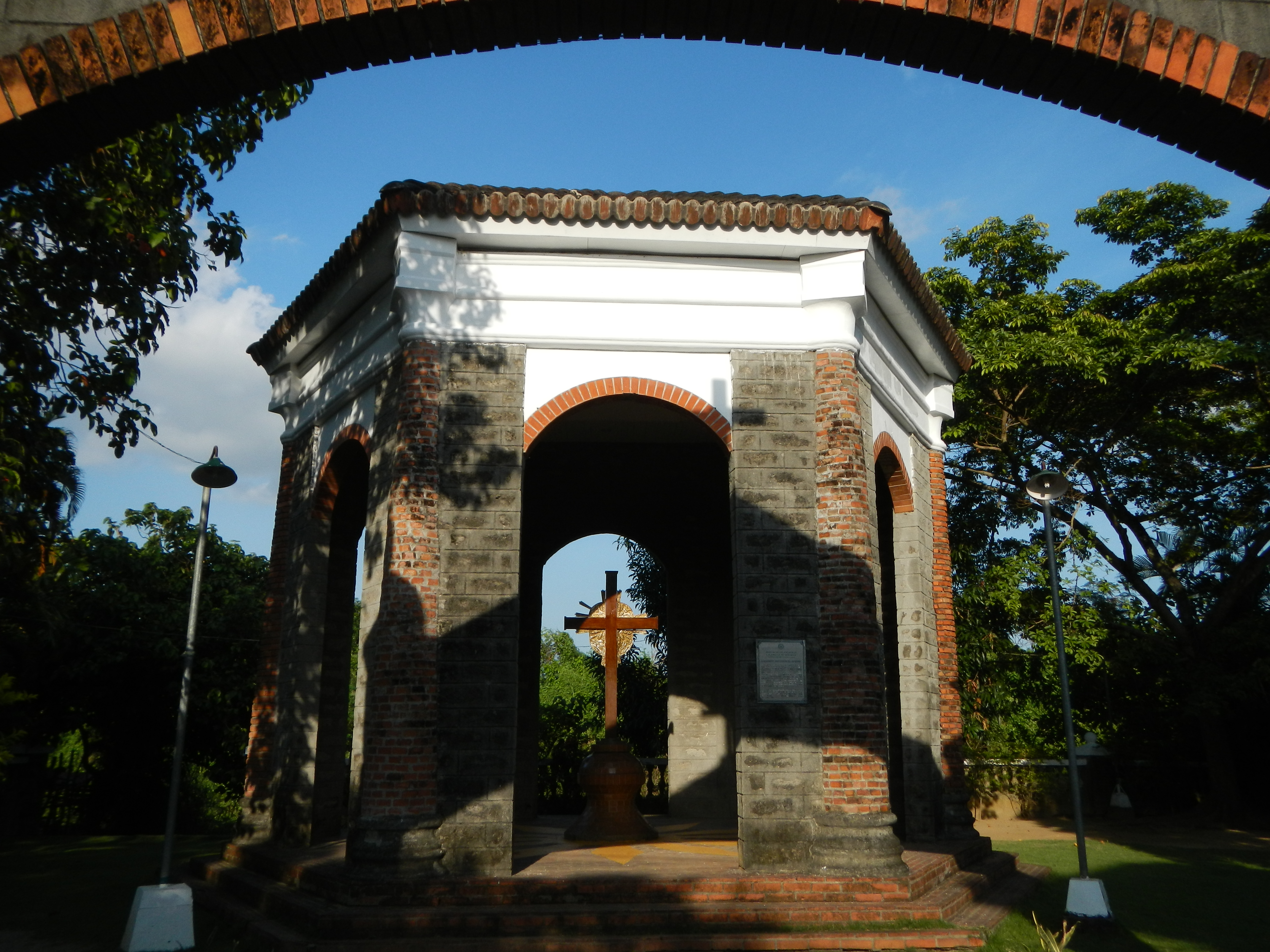 Calumpit, Bulacan Barangay Meyto Shrine the cradle of Christianity in the province, where the first Catholic Mass was held by the Augustinian friars in 1572. It is home to one of the oldest Crosses in the country accessed from Welcome Arch of Meyto located in Barangay San Jose, Calumpit, Bulacan.